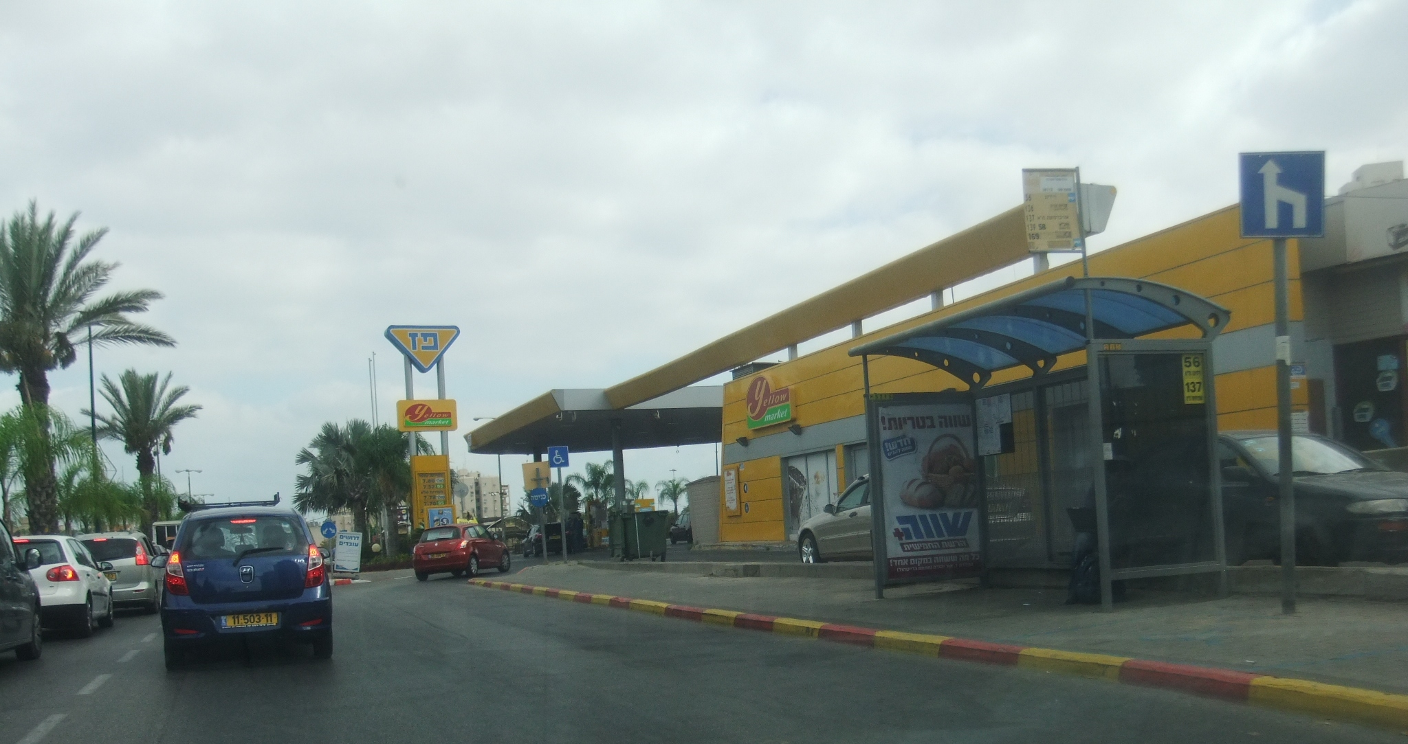 Paz Petrol station in Kiryat Ono